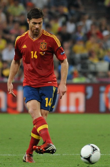 Xabi Alonso at Euro 2012 match Spain-France